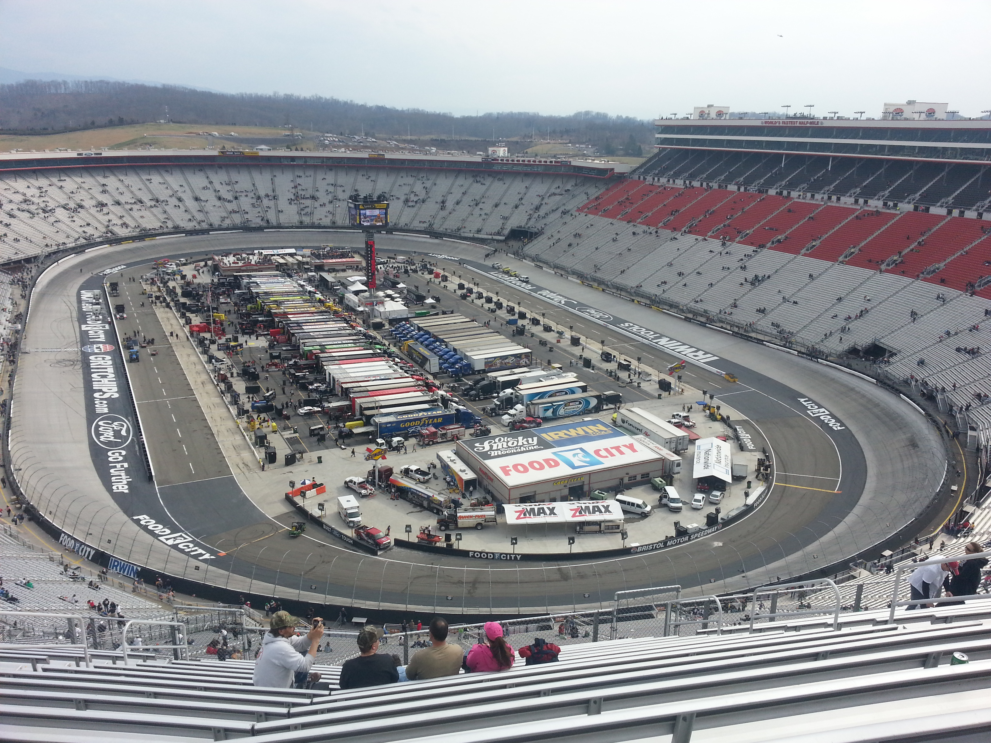 2013 photo of the speedway